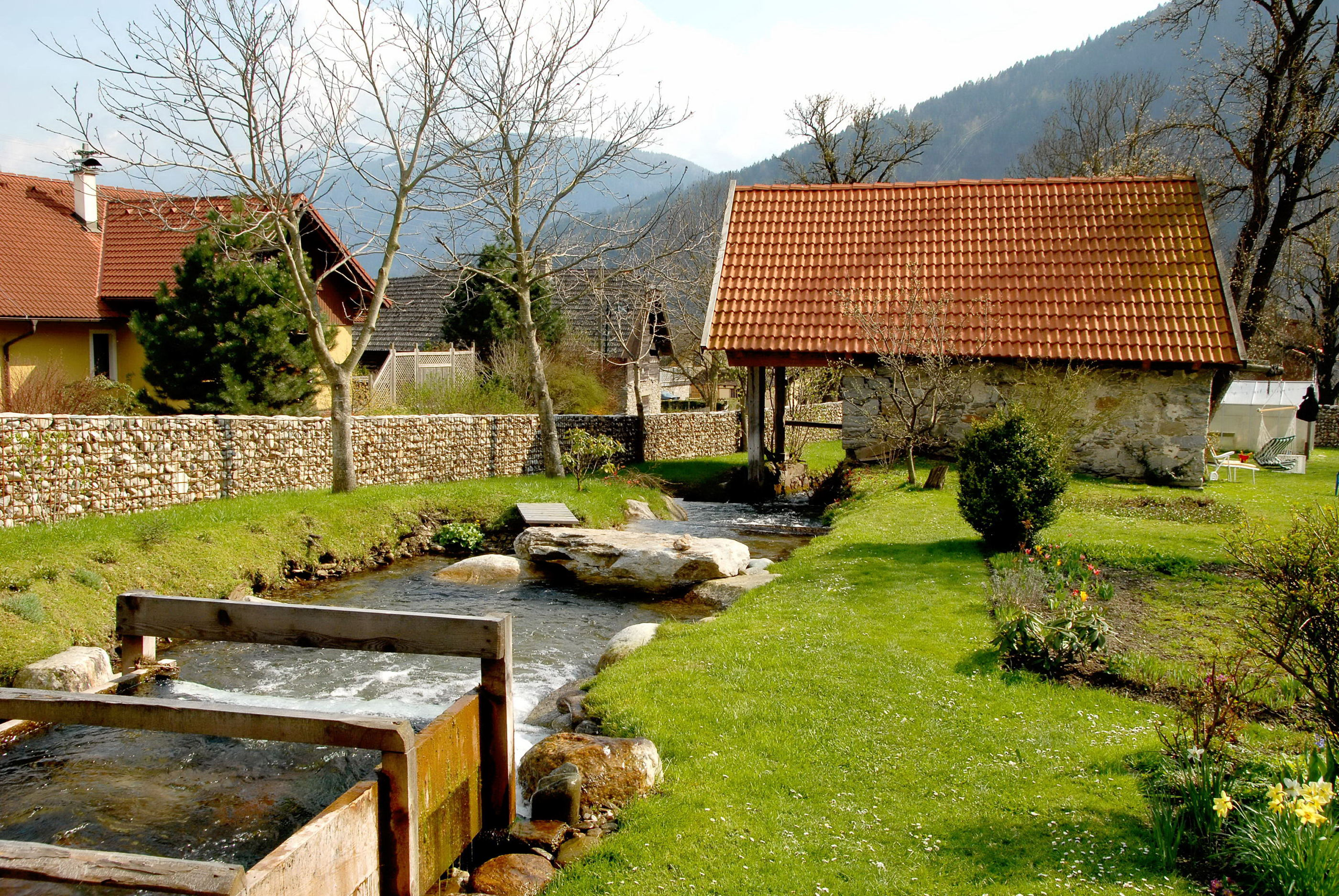 Brook at the community Muehldorf in the district of Spittal by the Drau, Carinthia, Austria.